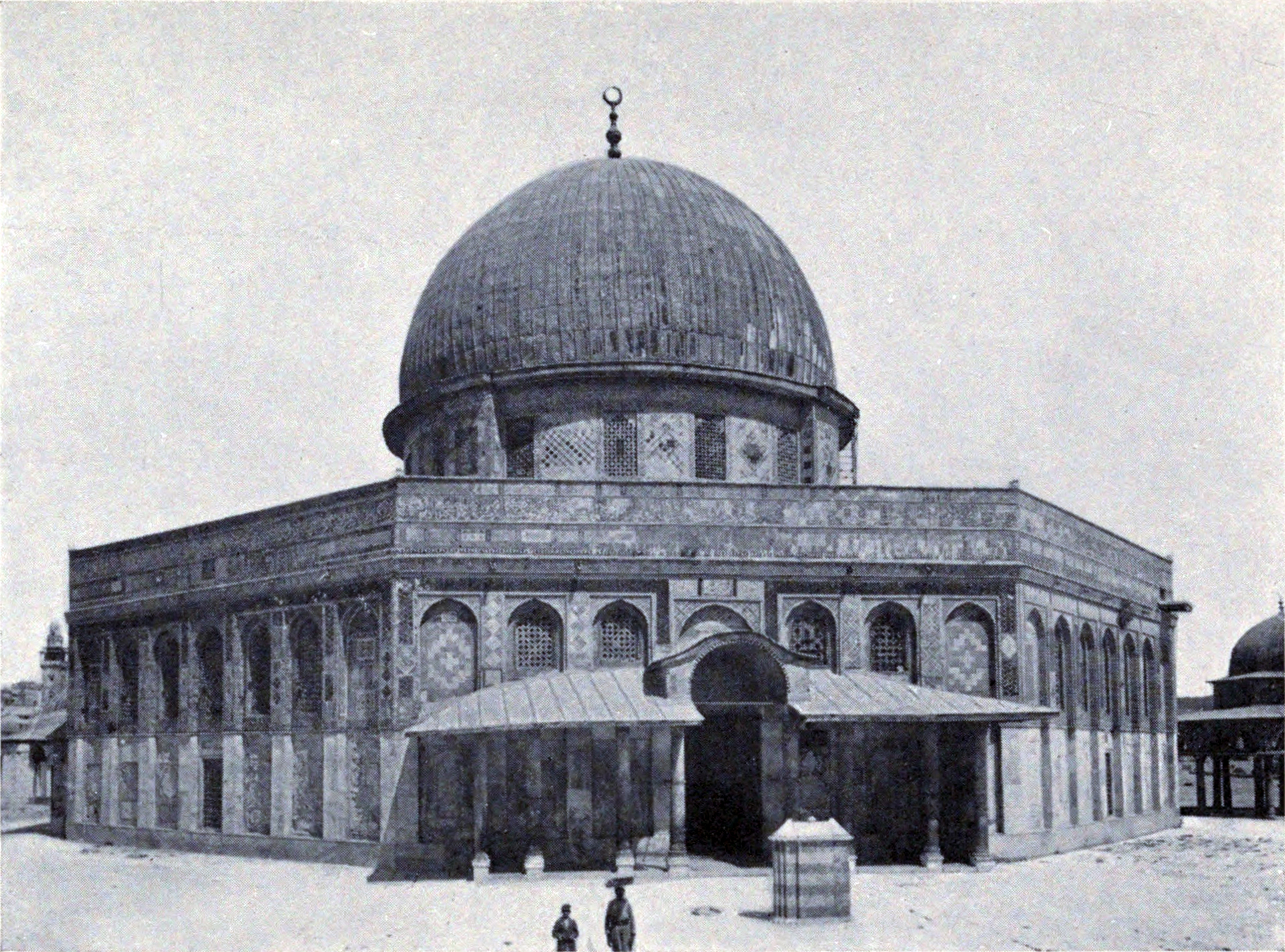 An image of the Dome of the Rock from Phillip Baldensperger's "The Immovable East: Studies of the People and Customs of Palestine", published in 1913. The image is credited as "by permission of The American Colony Photographers, Jerusalem".